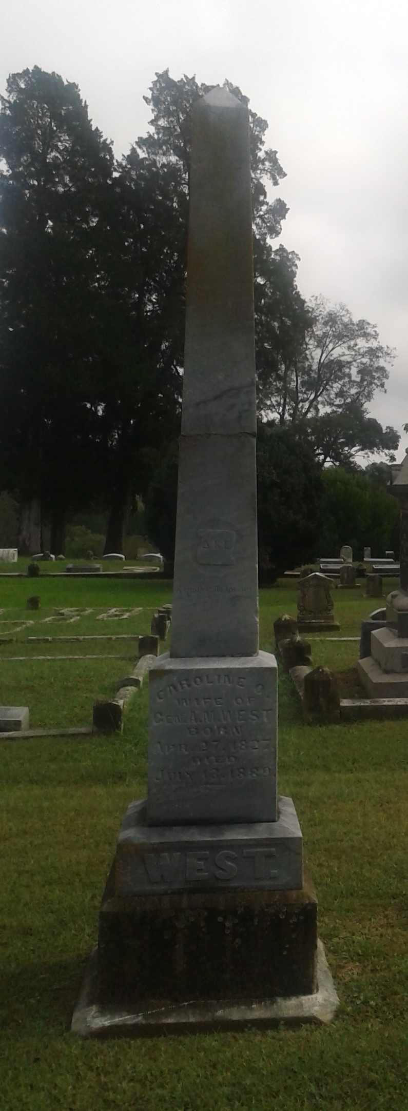 Hillcrest Cemetery, Holly Springs, Mississippi